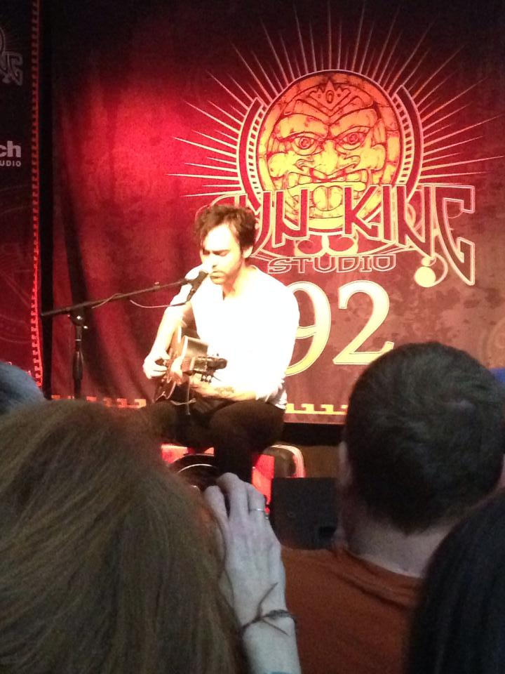 Shakey Graves performing at WTTS' Sun King Studio 92 on April 3, 2015